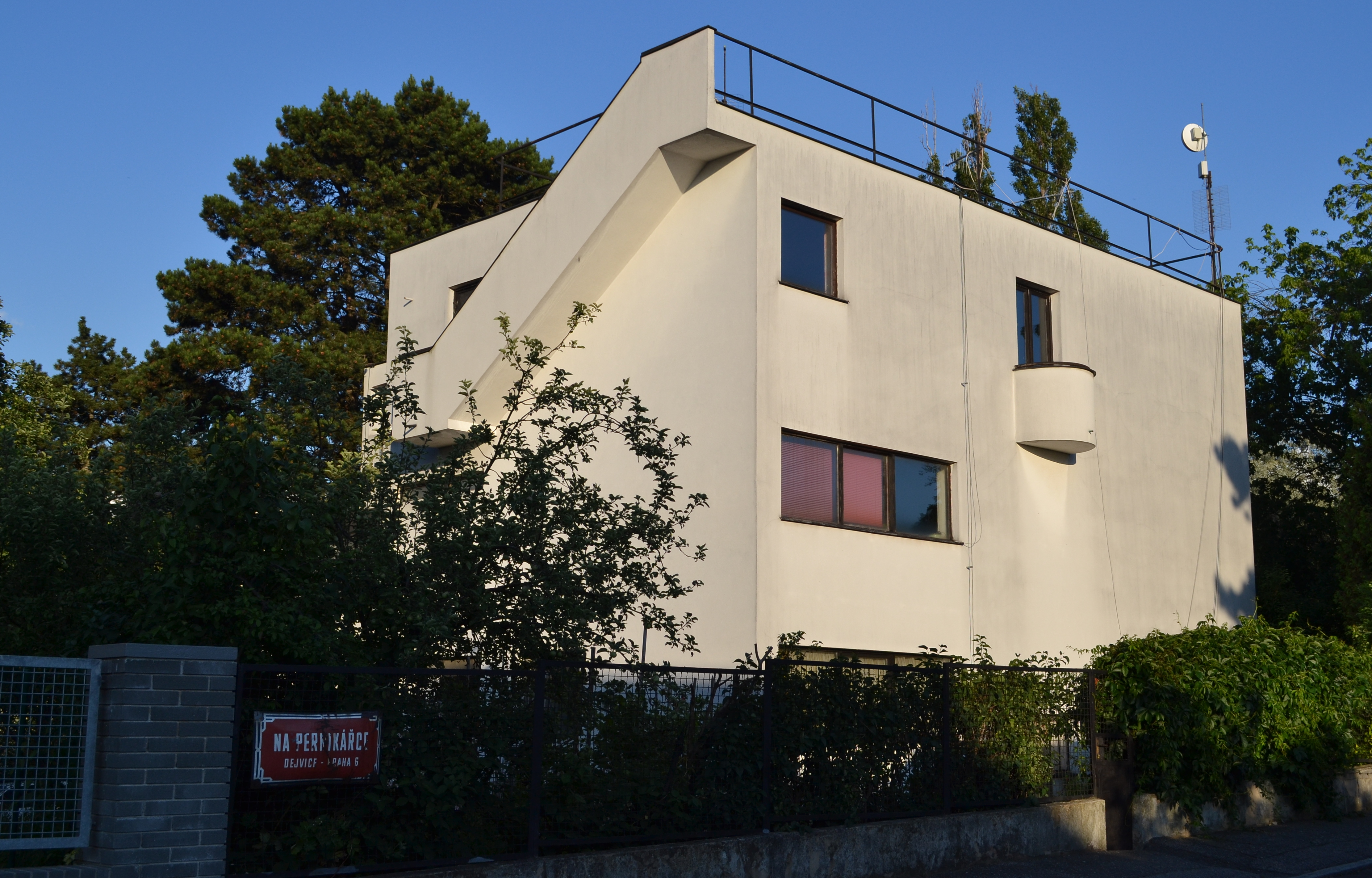 Villa of architect Evžen Linhart, Na Viničních horách 774/46, Prague, Czech Republic.